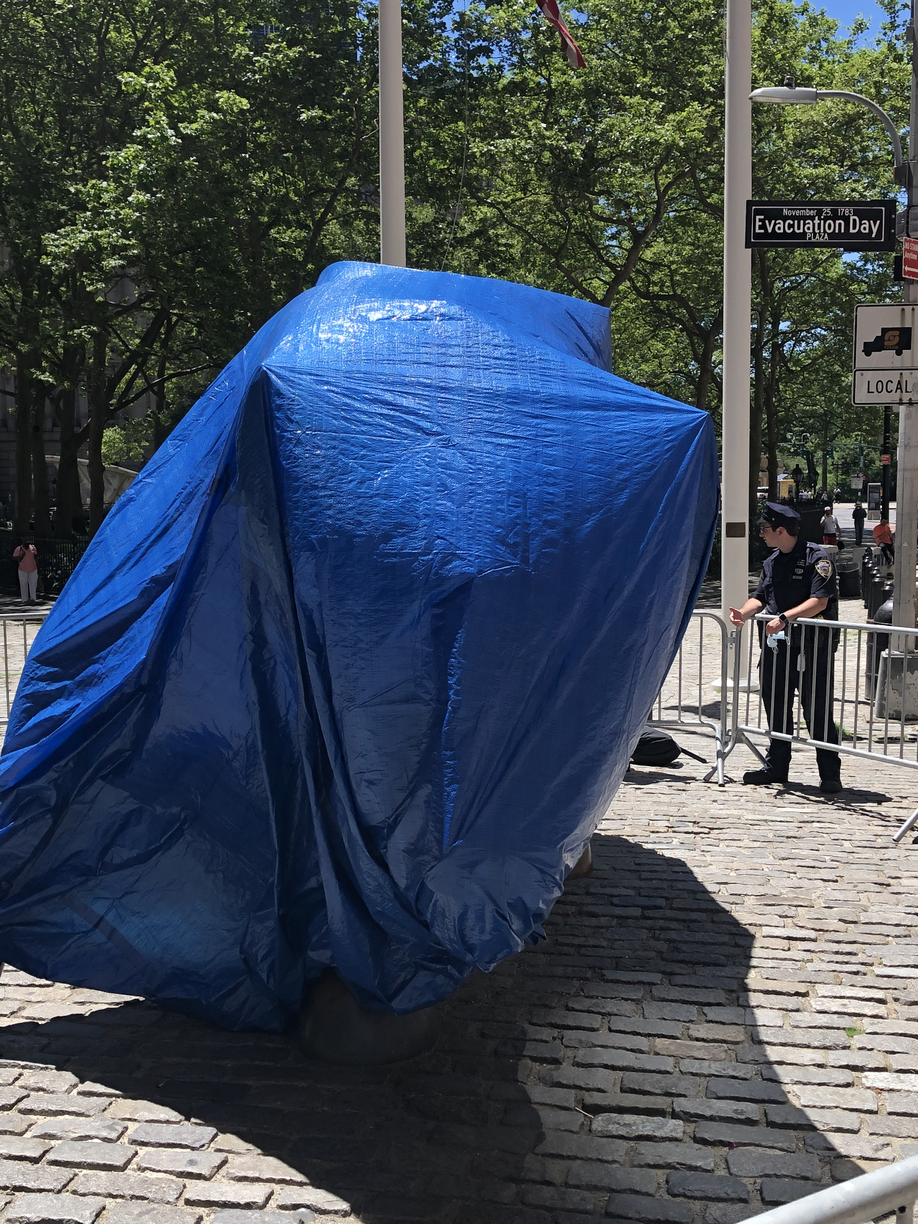 The Charging Bull Sculpture covered in a blue tarp and barricaded by NYPD to stop vandalism attempts during the George Floyd Protests